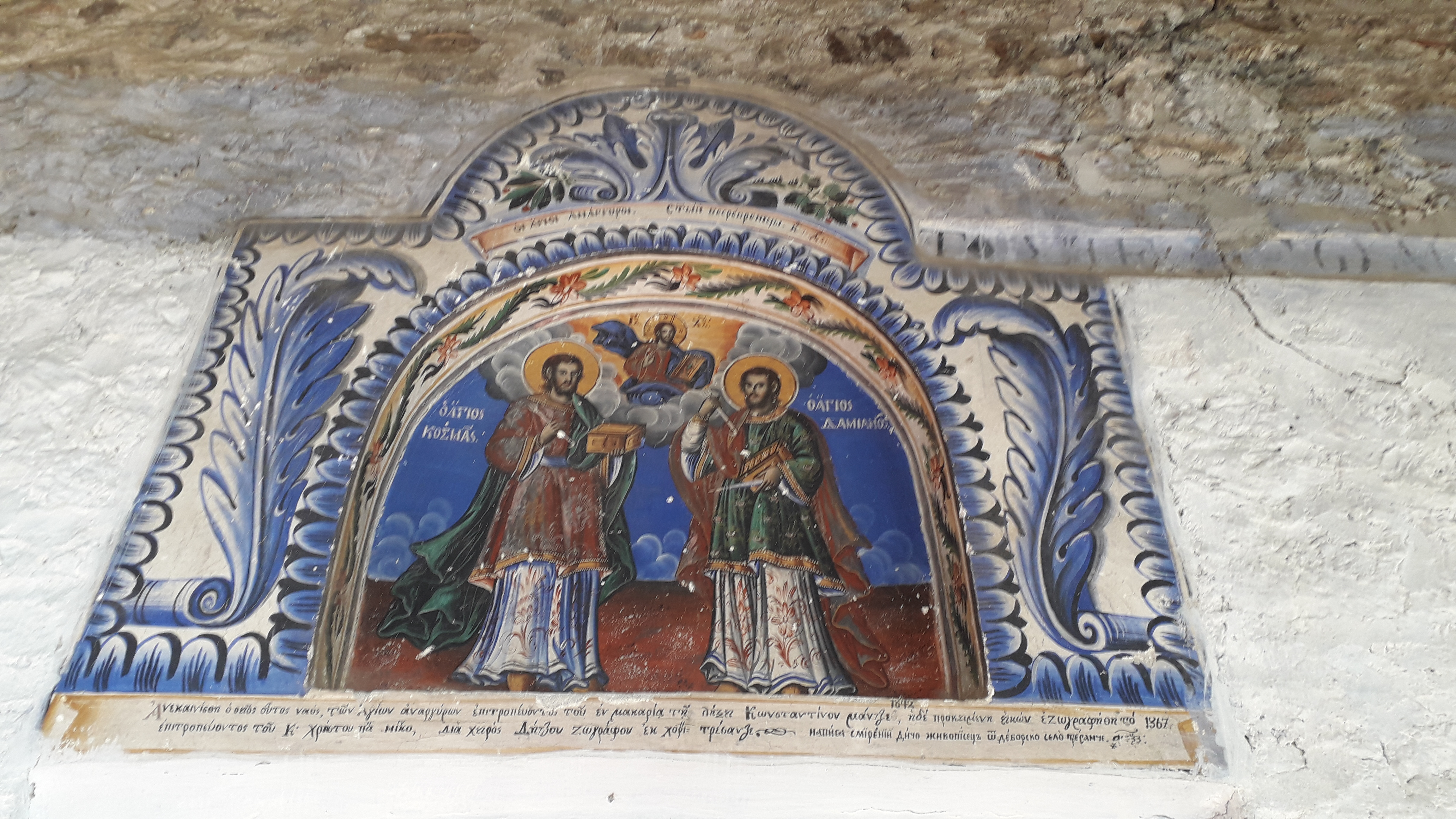 Dicho Zograf frescoe, Kozma i Damyan, Ohrid